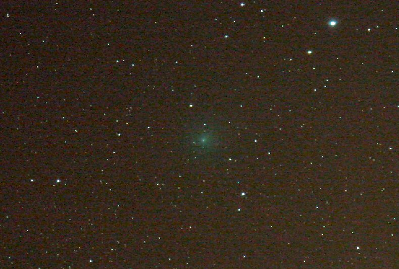 Comet C/2007 E2 (Lovejoy) seen from Mt Laguna, California. Camera was a Canon 20D set to 90sec @ f/2.8 @ ISO 1600 at 400mm on a Meade LXD55 telescope. The bright star at upper right is 5.6 magnitude 19 Aquilae.